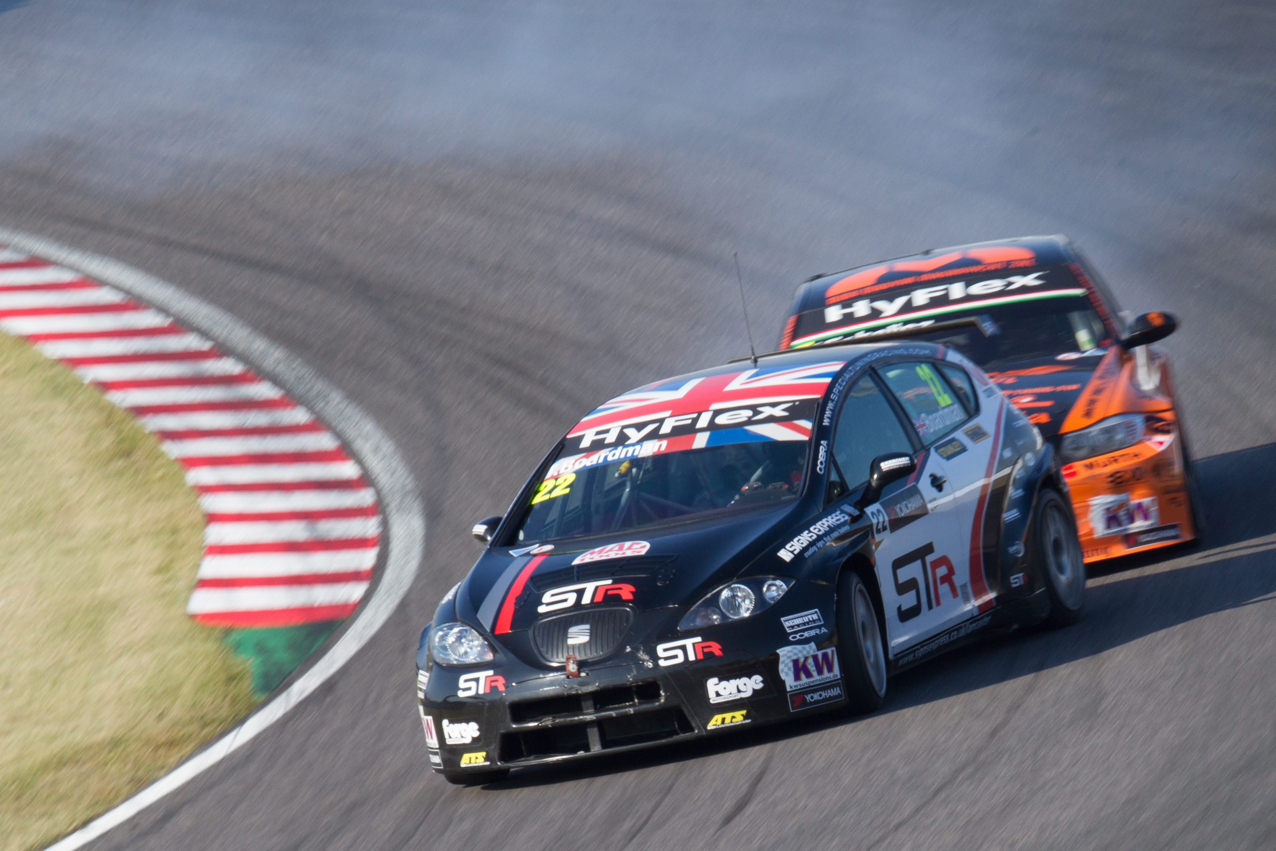 World Touring Car Championship 2012 Race of Japan: Tom Boardman (Special Tuning Racing) manages to hold off Norbert Michelisz